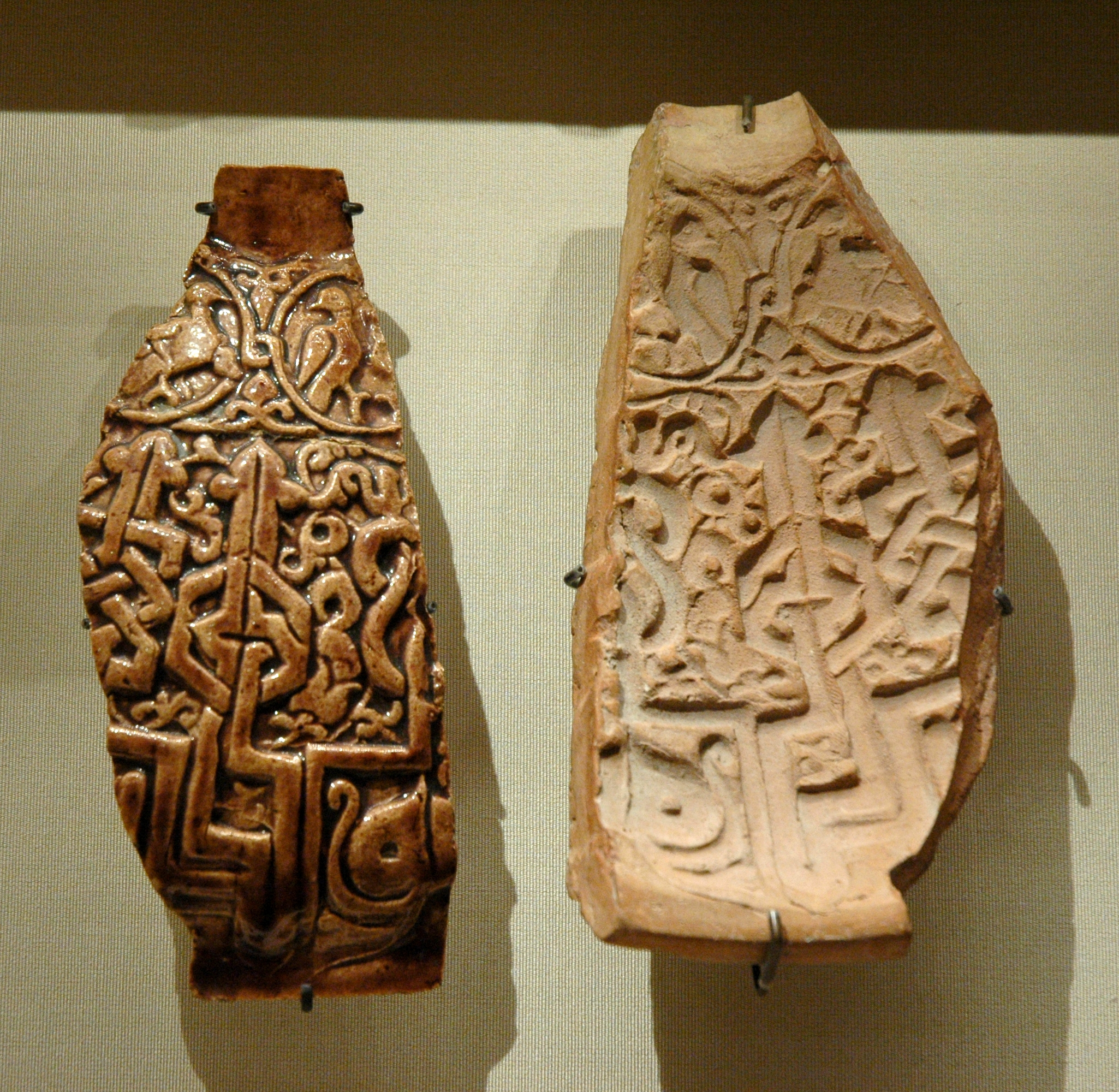 Fragments of mold and cast. Terracotta with cut and champlevé decoration, 12th-early 13th century, Nishapur.